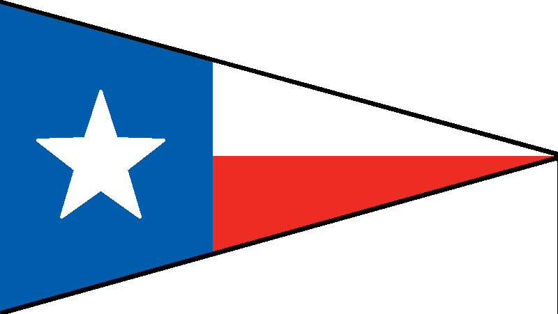 Burgee of Dallas Corinthian Yacht Club. A yacht club's burgee is flown from the top of the mast of the member yachts as an identifying symbol that the yacht has the right to be present.